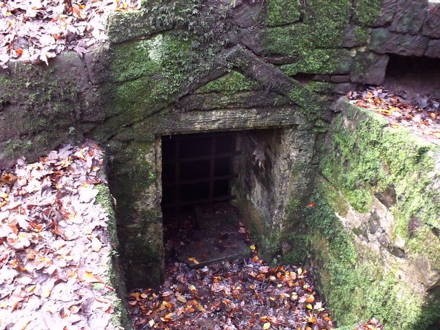 The Ice House at Colzium A very good and well preserved example of a Victorian ice house which would appear to be a double chambered type with loading hatch and escape channel.